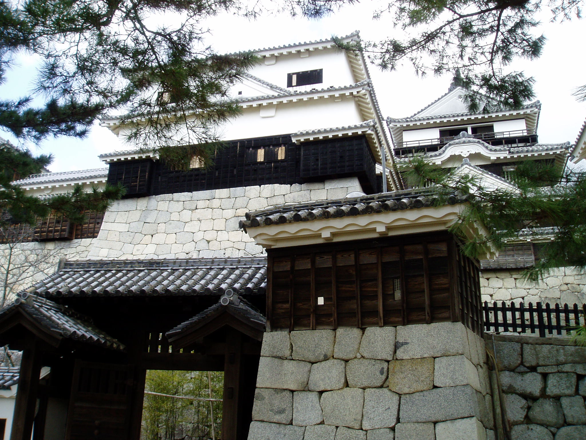 Keep of Iyo-Matsuyama Castle in Matsuyama, Ehime, Japan.